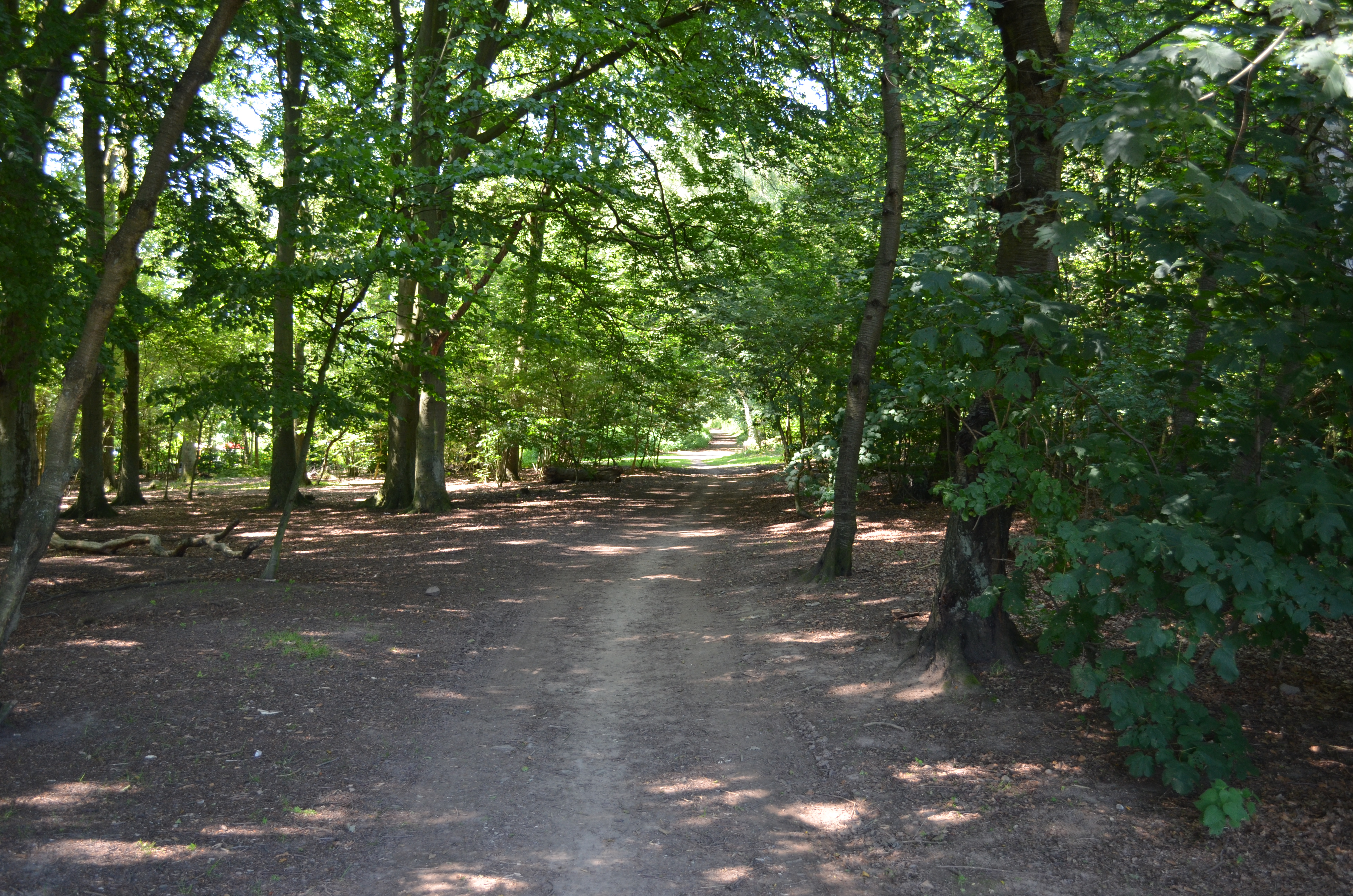 Ättekulla in Helsingborg.